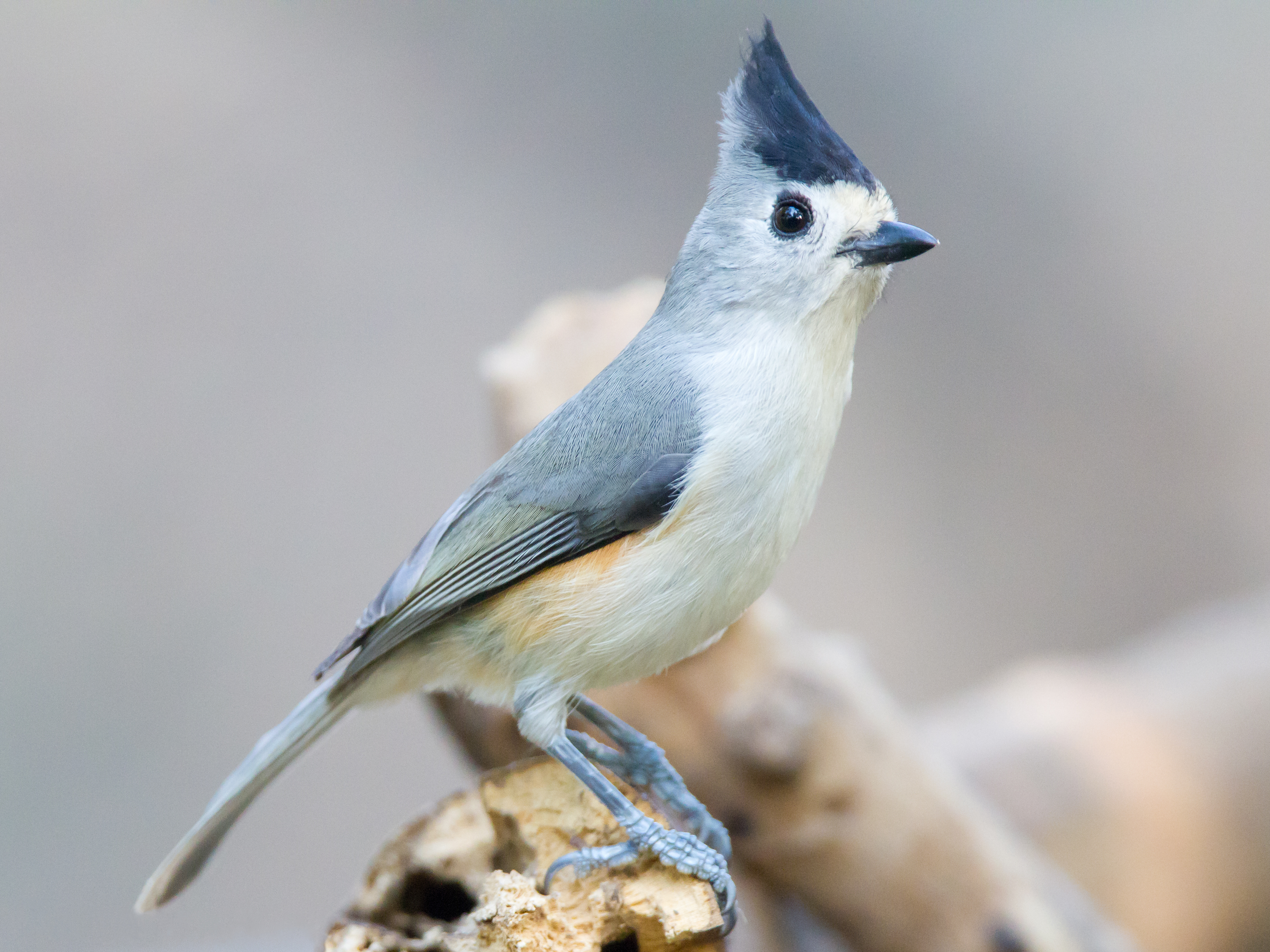 Black-crested Titmouse Baeolophus atricristatus, Santa Ana NWR, lower Rio Grande valley, Texas